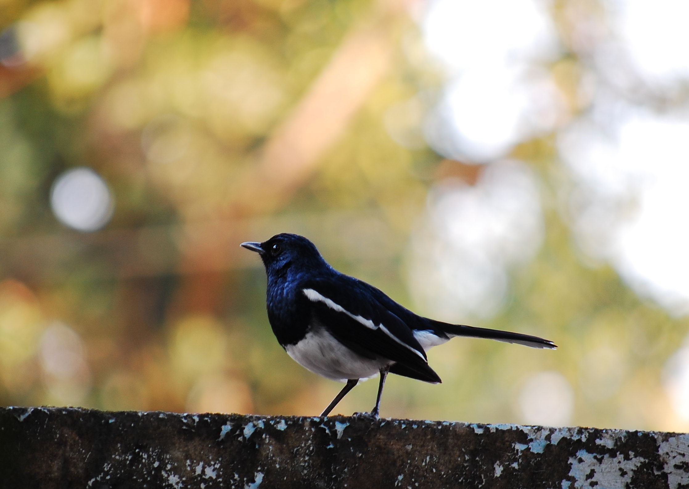 Oriental Magpie Robin (Copsychus saularis) found at chalakudy, Kerala, India